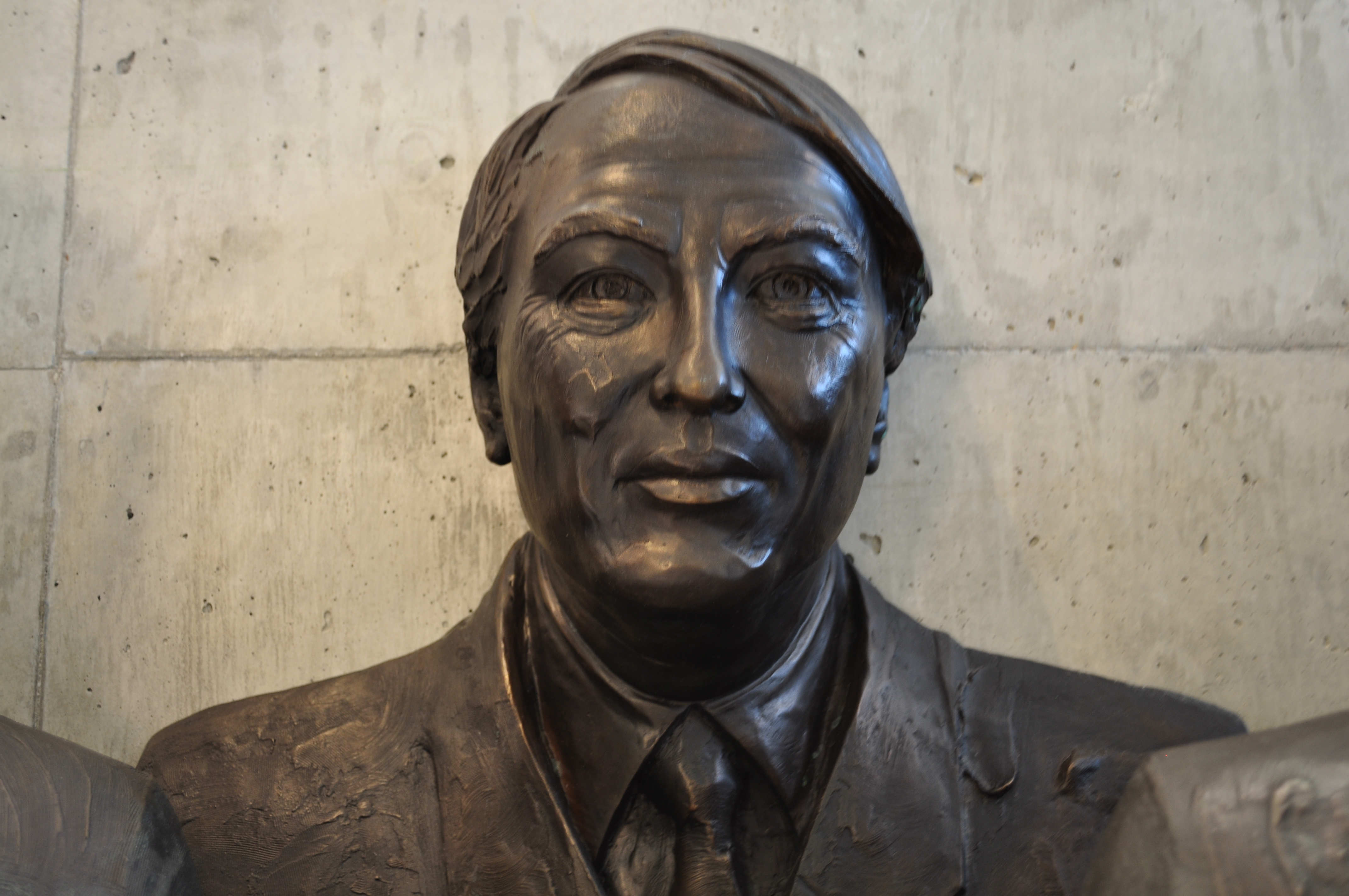 Bust of Lap-Chee Tsui in the Donnelly CCBR building (University of Toronto).